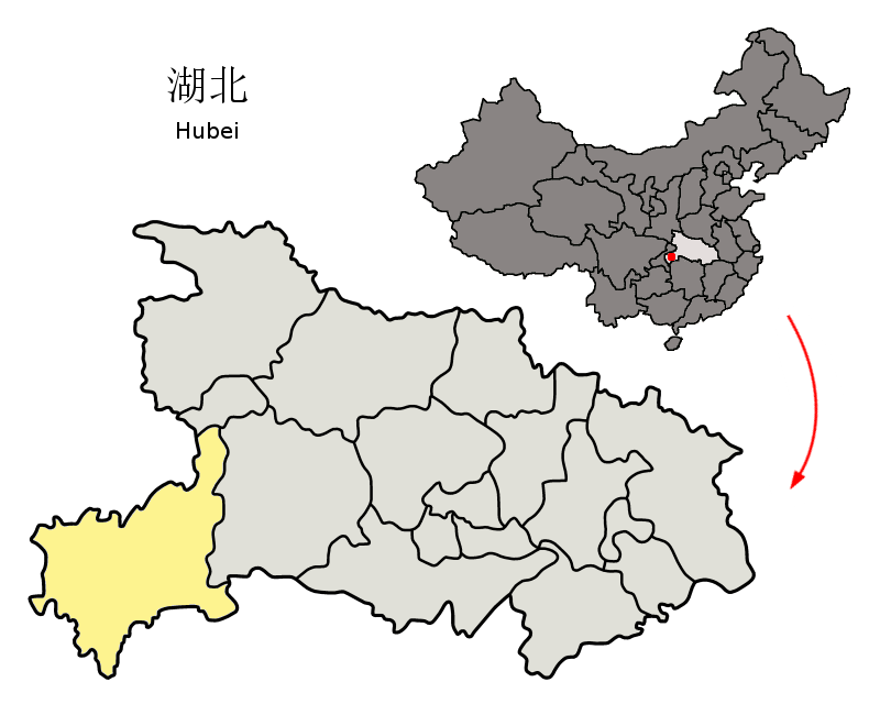 Location of Enshi Prefecture (yellow) within Hubei Province of China Map drawn in december 2007 using various sources, mainly : Hubei Province administrative regions GIS data: 1:1M, County level, 1990 Hubei Counties map from